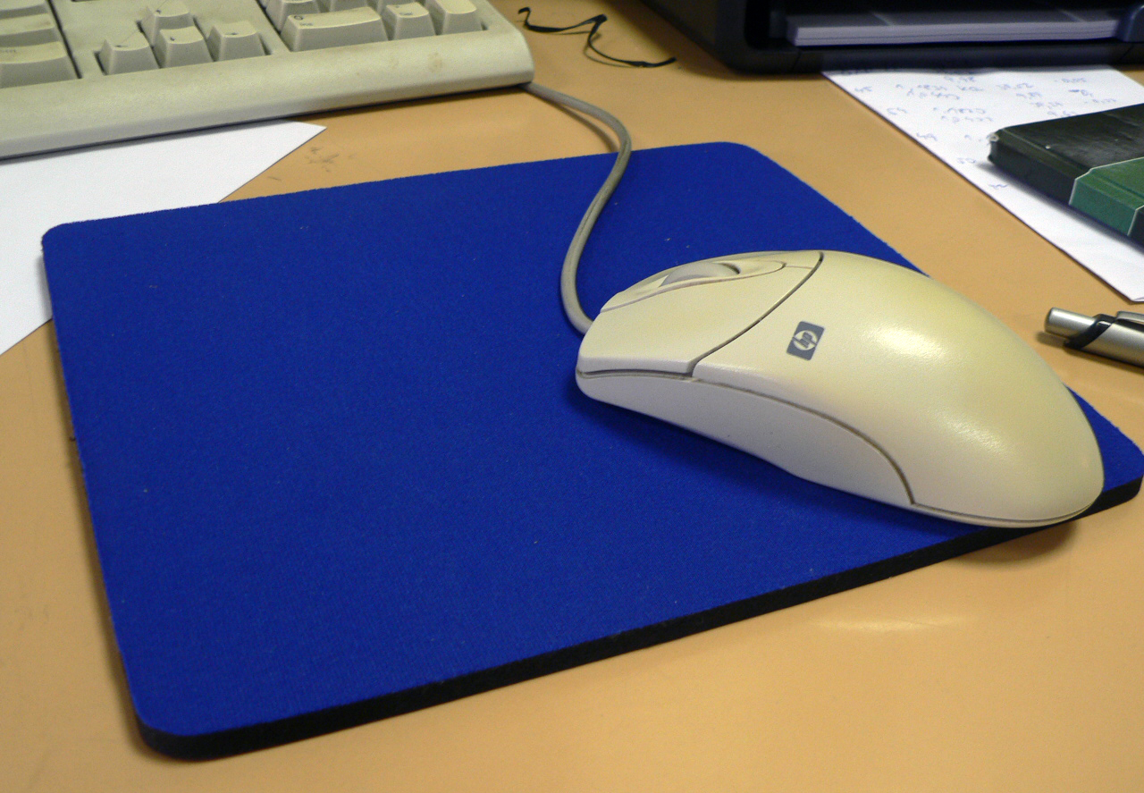 Hewlett-Packard mouse and a blue mousepad.